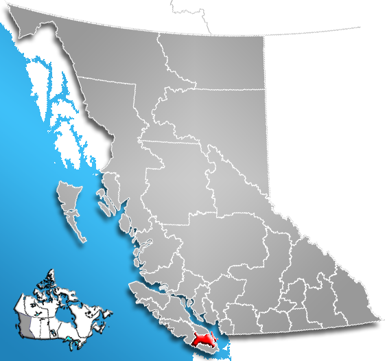 Location of Cowichan Valley Regional District, British Columbia